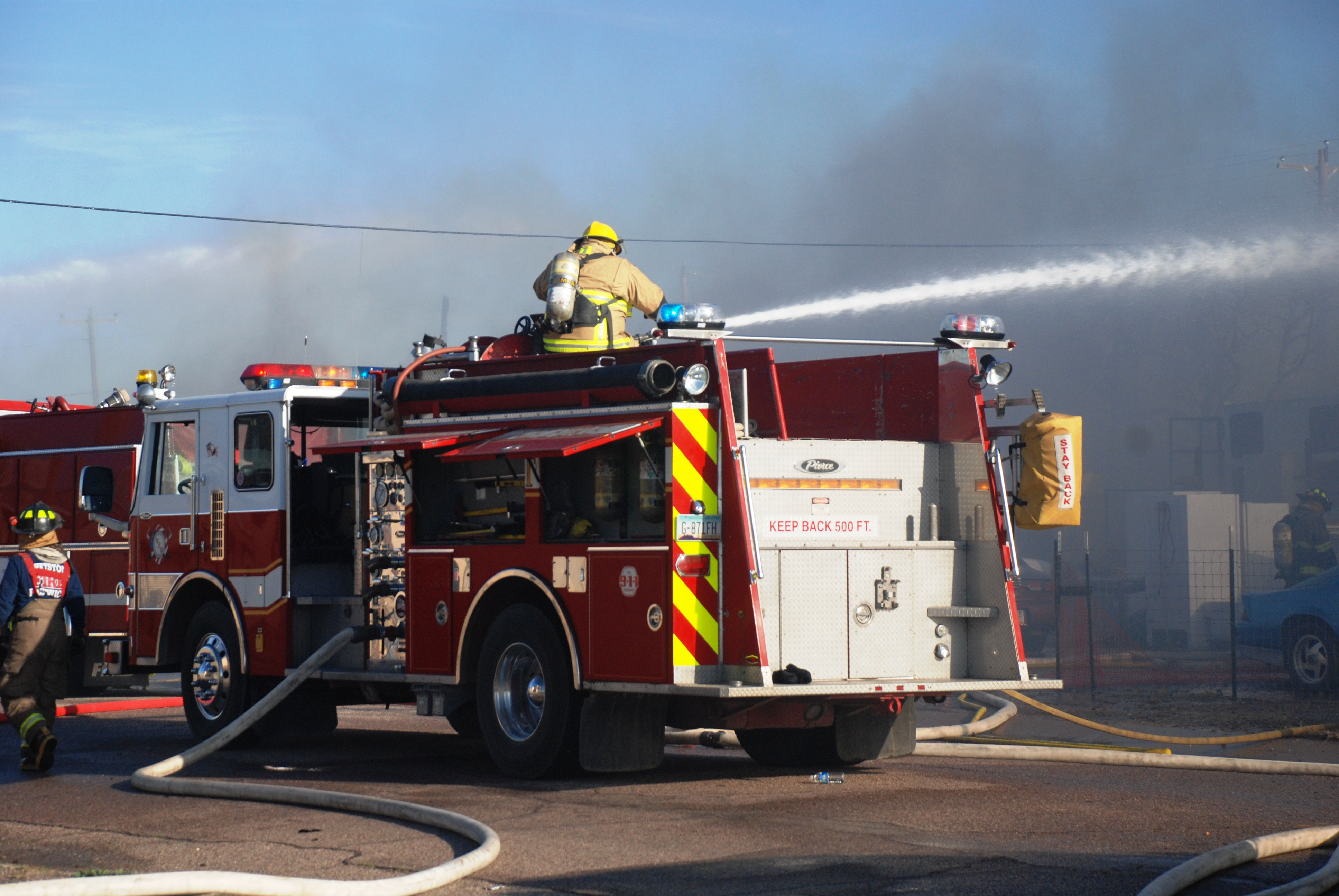 Firefighters fighting a file in Huachuca City, Arizona